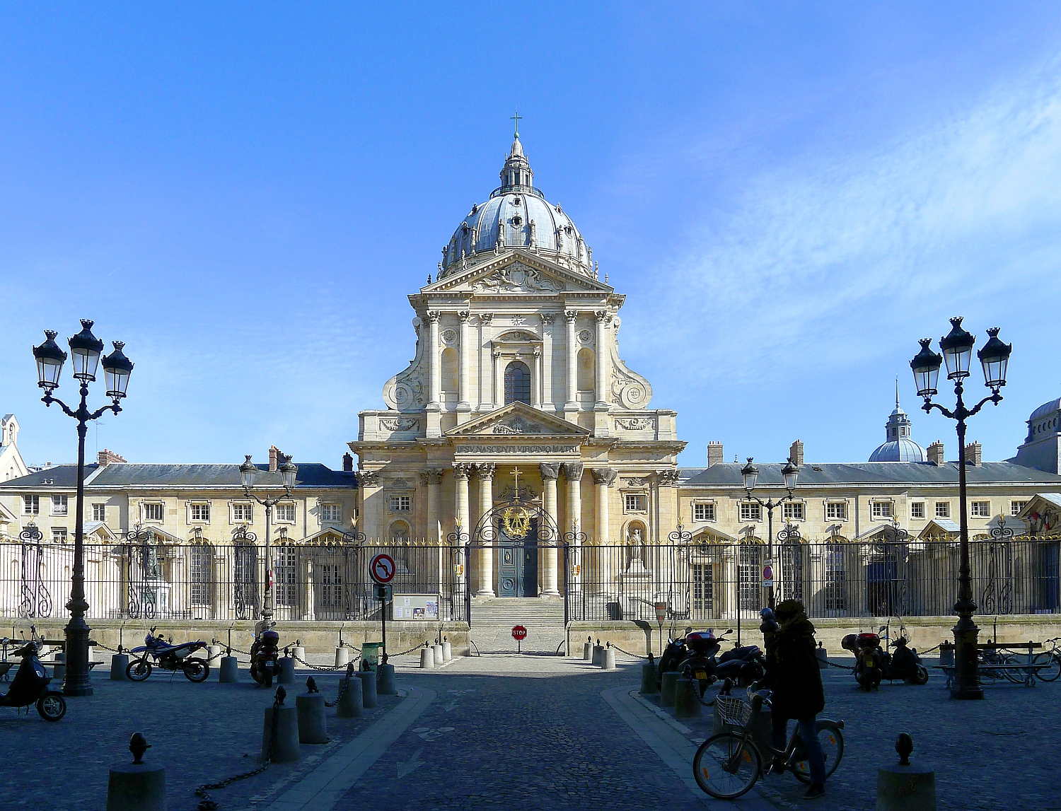 Val-de-Grâce - Paris